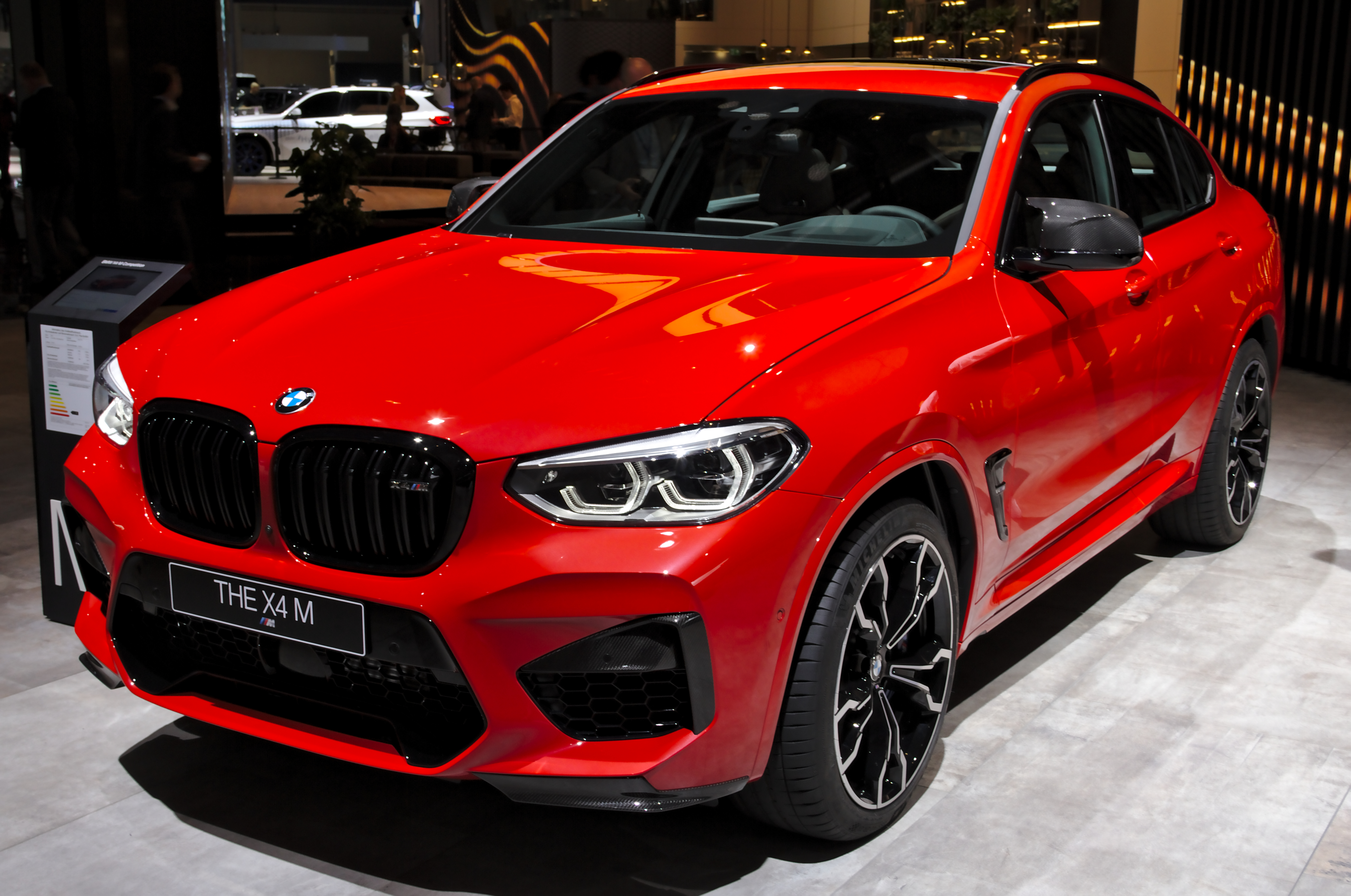 BMW_X4_M_(G02) at IAA 2019